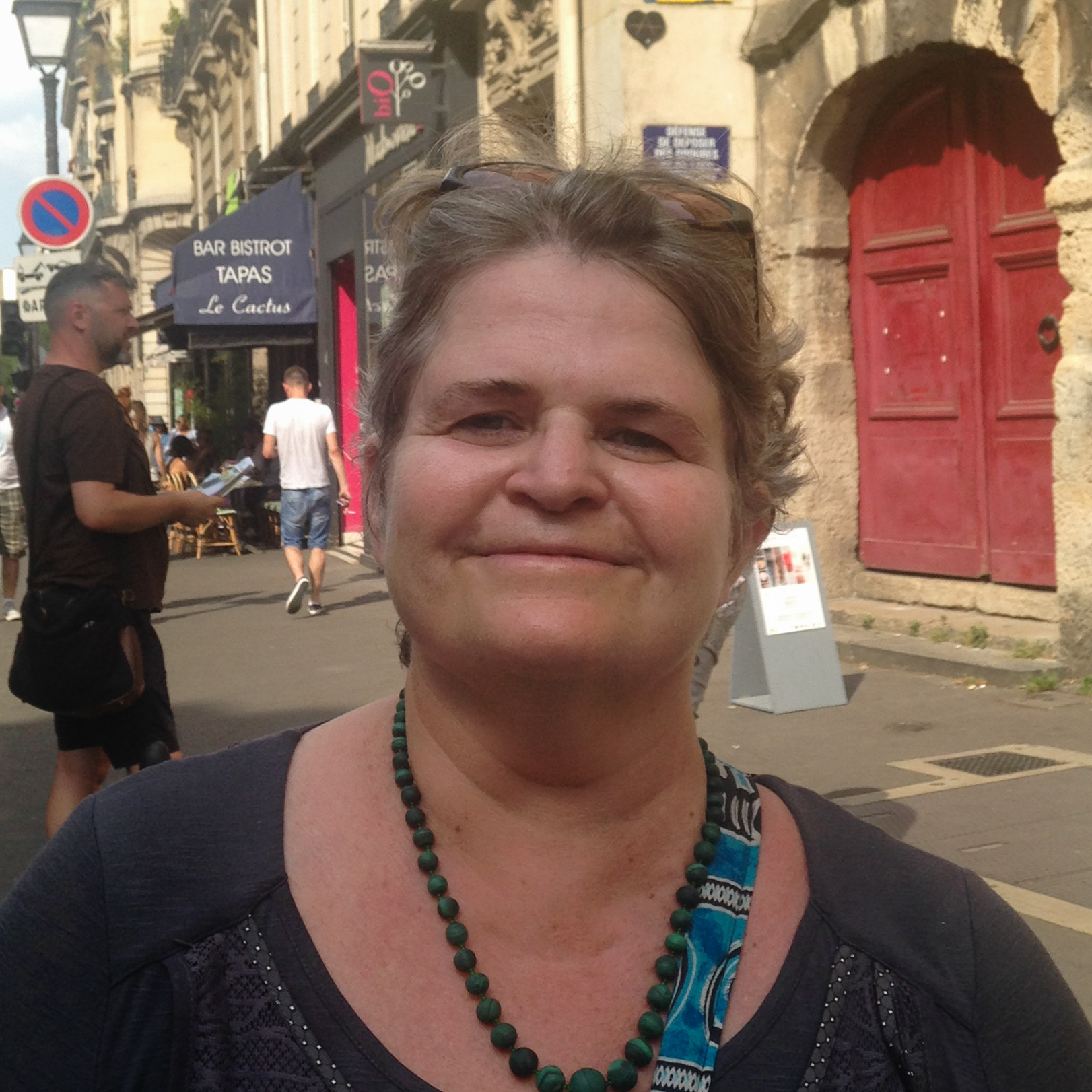 Depicted person: Hélène Franco – French politician